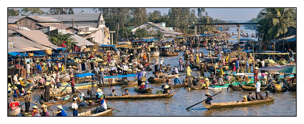 River Market in Ca Mau